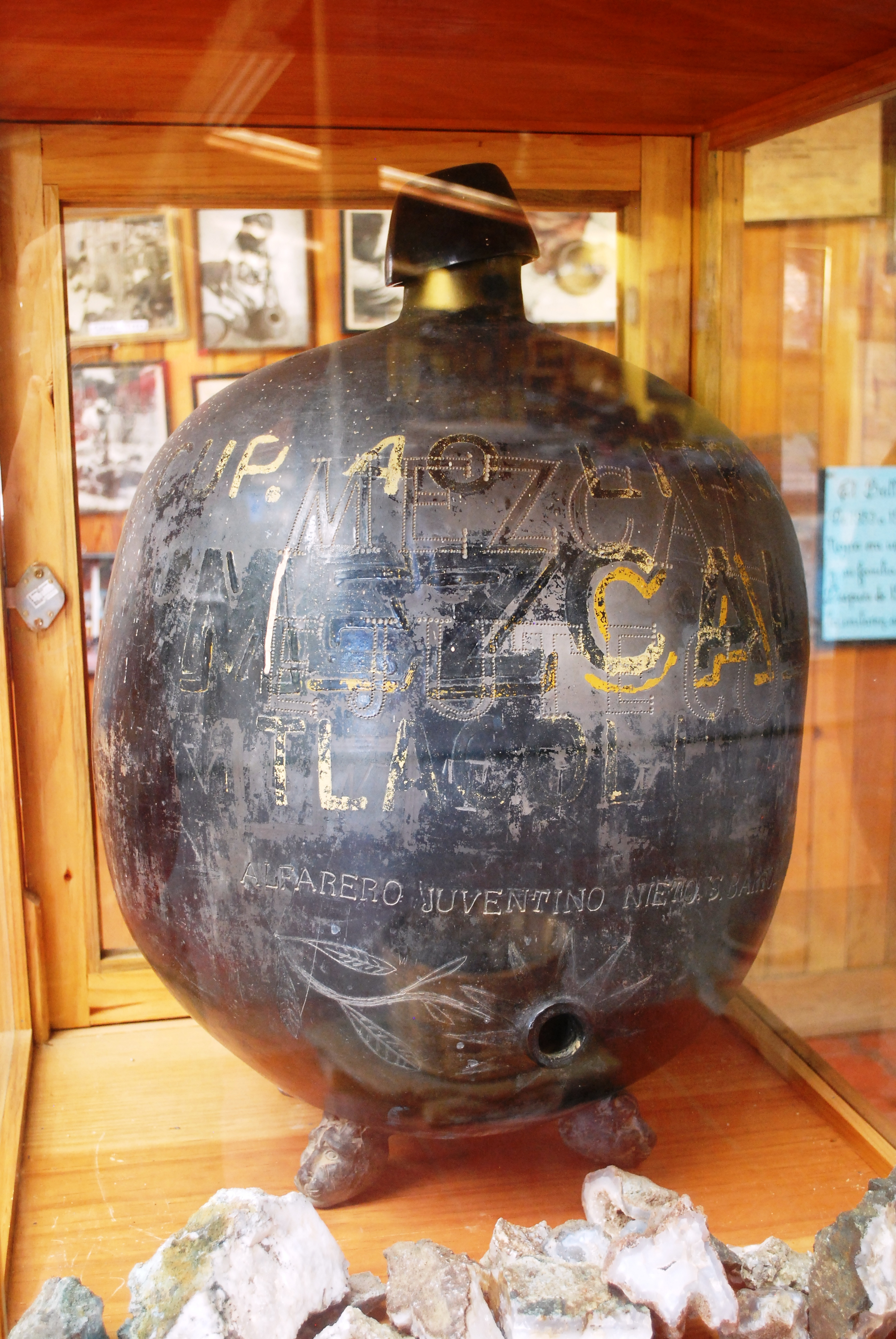 Cantaro jar for serving mezcal at the Doña Rosa Workshop in San Bartolo Coyotepec, Oaxaca, Mexico